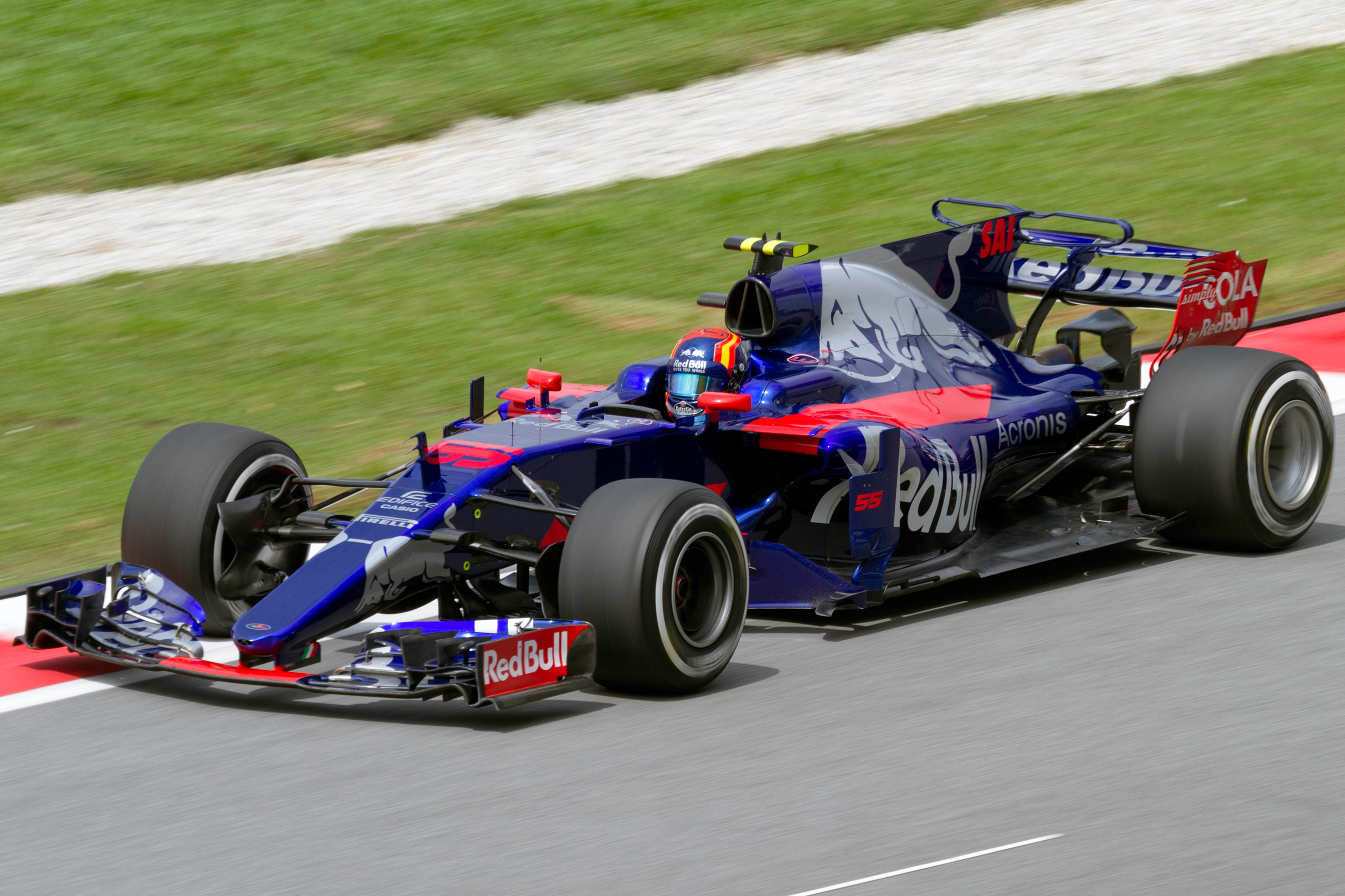 Formula One 2017 Round 15 Malaysian GP: Carlos Sainz Jr. (Toro Rosso)